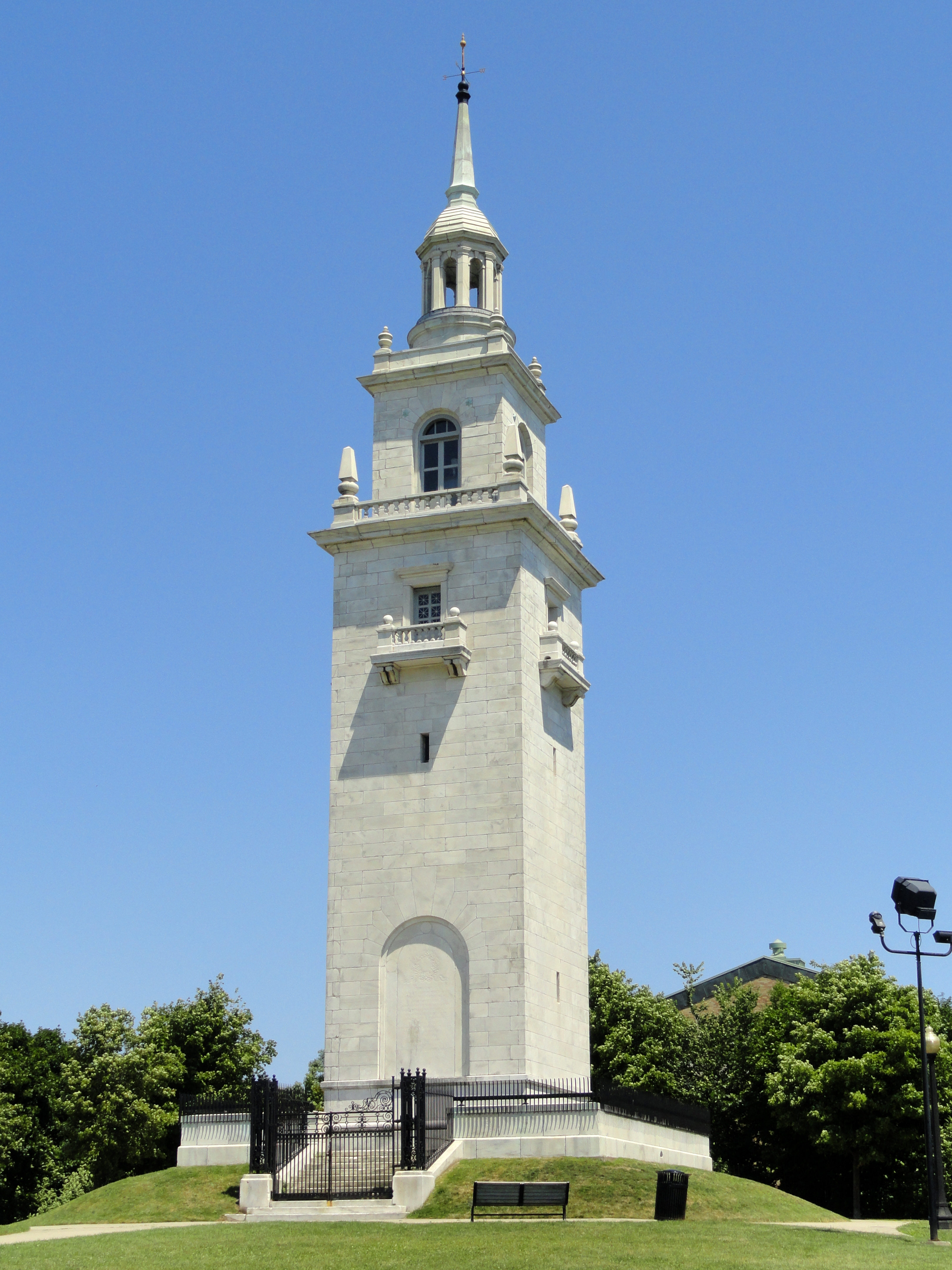 Dorchester Heights Monument, 1902, Telegraph Hill, Thomas Park, Boston, Massachusetts, USA.